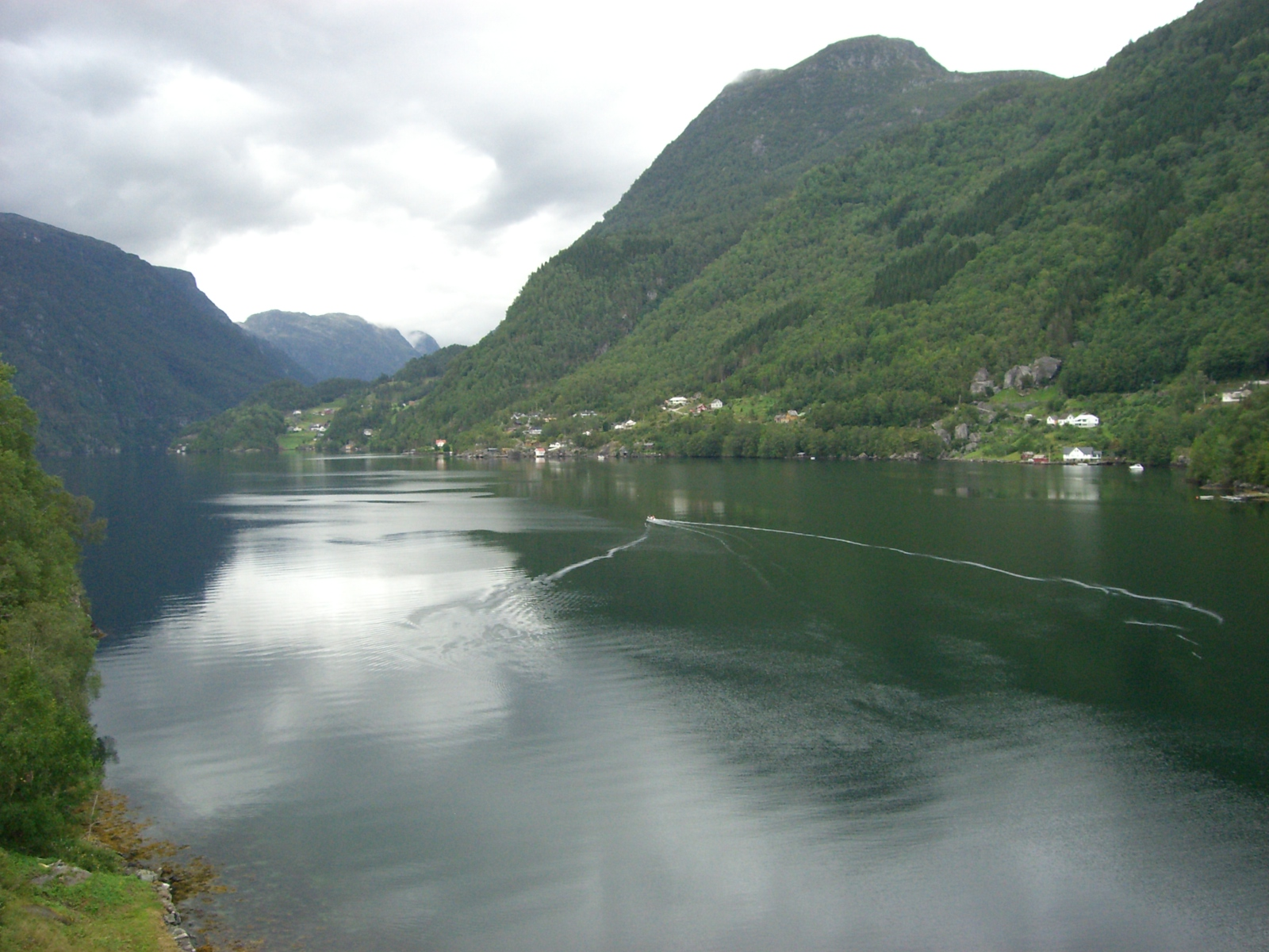 View of the fjord Fyksesund from the west bank.